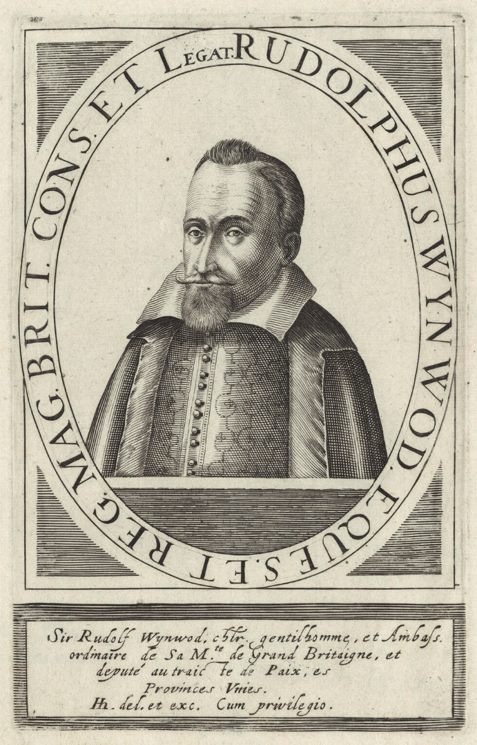 Portrait of Sir Ralph Windwood, early 17th century, by Hendrik Hondius I.